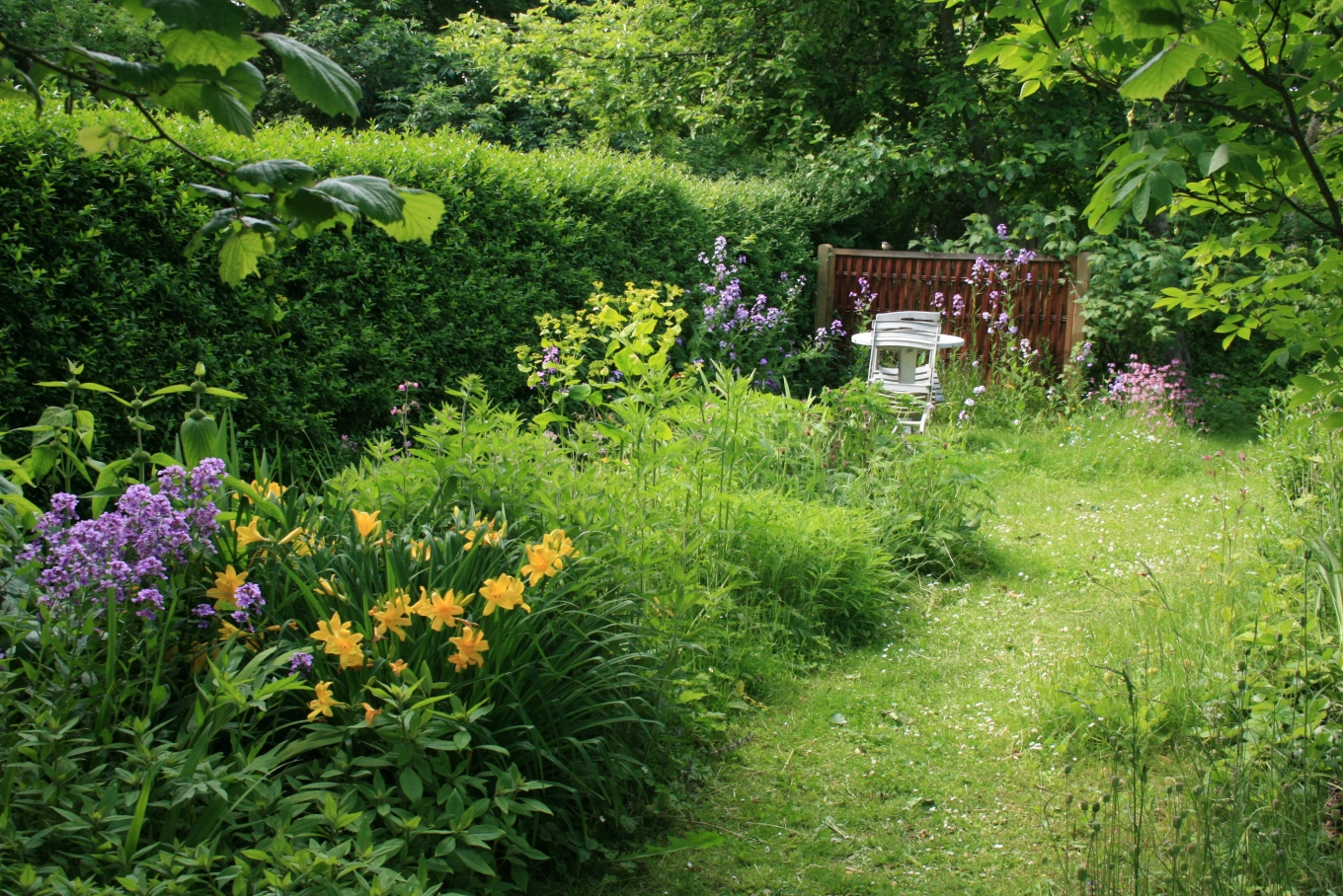 A Danish wild garden with Hesperis matronalis, Hemerocallis lutea, Smyrnium perfoliatum, and Silene flos-cuculi. Malling, eastern Jutland.